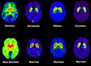 PET brain scans show chemical differences in the brain between addicts and non-addicts. The normal images in the bottom row come from non-addicts; the abnormal images in the top row come from patients with addiction disorders. These PET brain scans show that that addicts have fewer than average dopamine receptors in their brains, so that weaker dopamine signals are sent between cells.